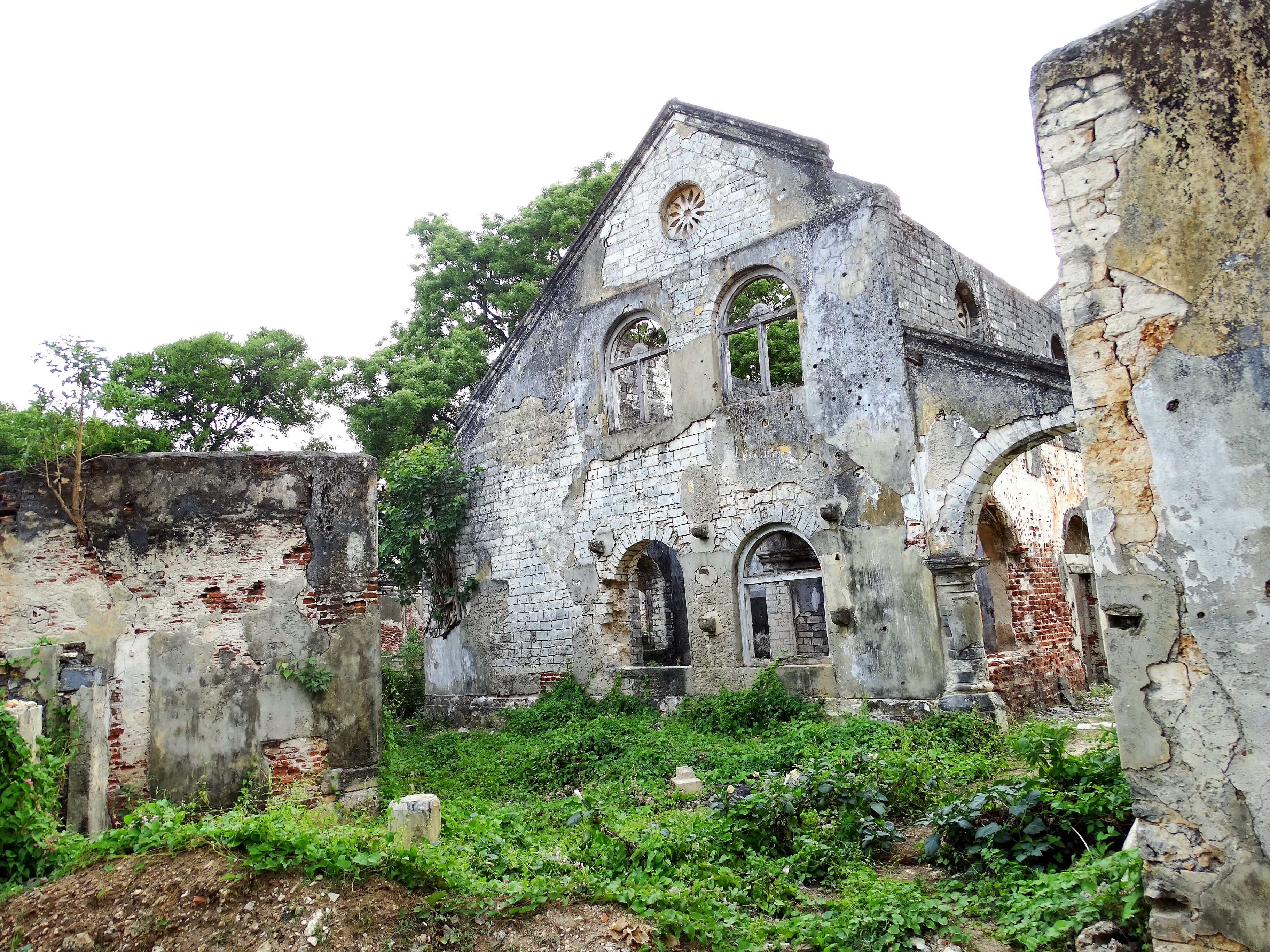 Ruins of Governor's Bungalow - Destroyed in 1980s Civil War - Jaffna - Sri Lanka